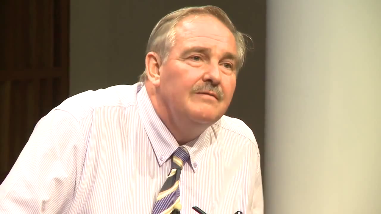 David Nutt in Karolinska Institutet, 2013 Screenshot from video